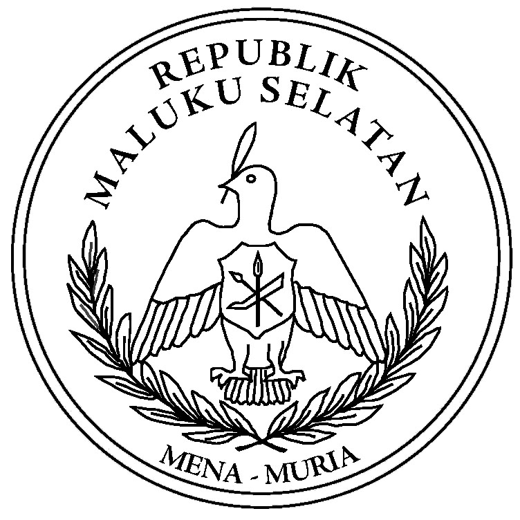 The coat of arms of the Republic of South-Moluccas